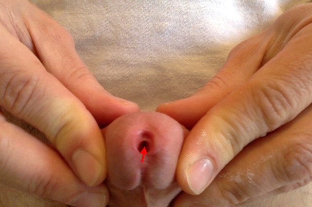 View of urethral membrane inside open urinary/urethral meatus